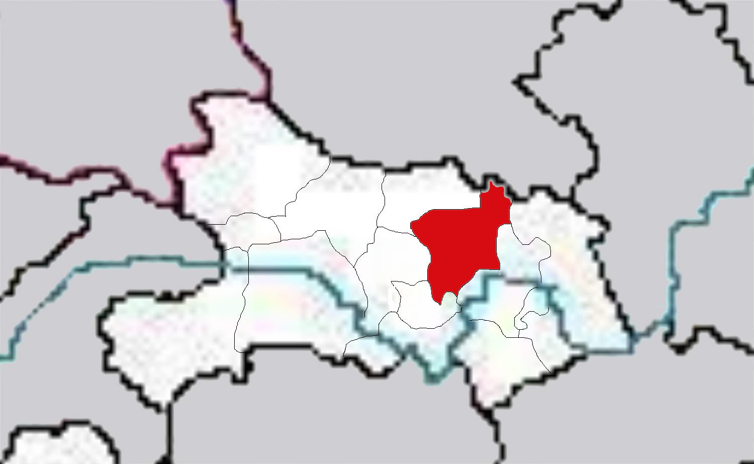 Maps of Hubei Province of China